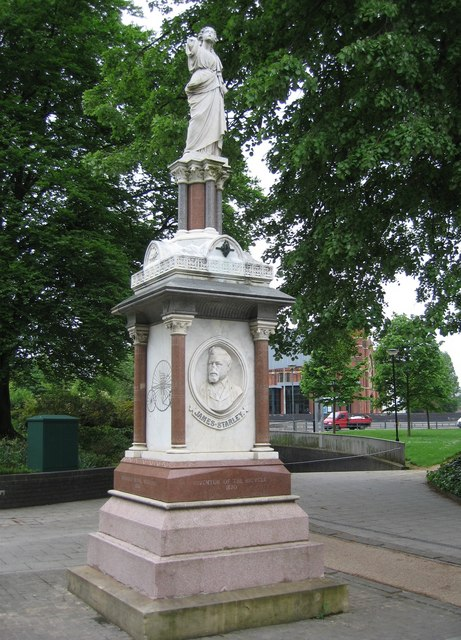 James Starley Memorial